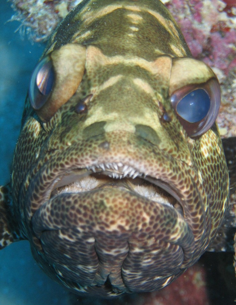 A Camouflage Grouper (Epinephelus polyphekadion). Castles, Osprey Reef, Coral Sea